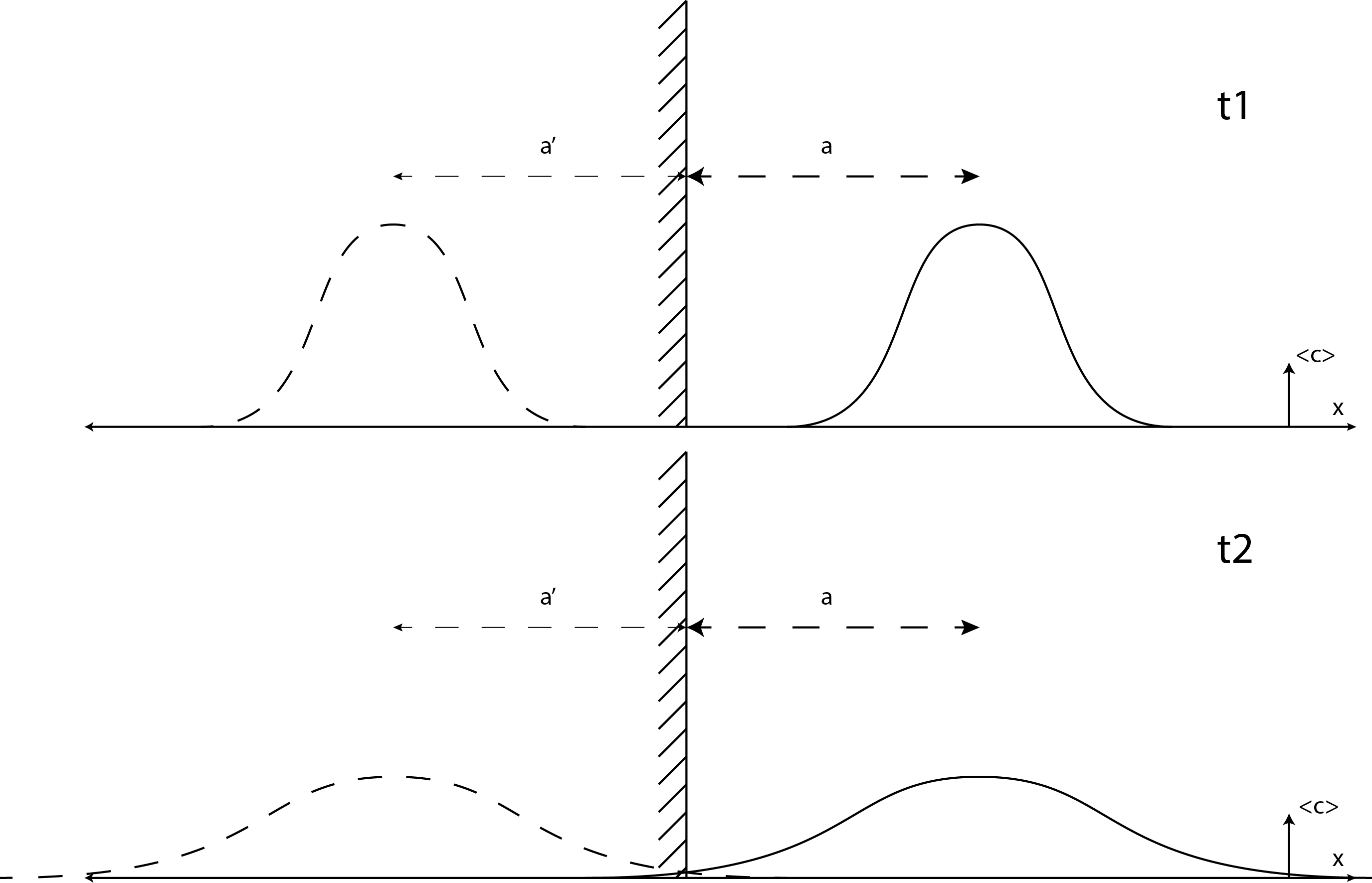 1D reflection of a diffusing mass release.